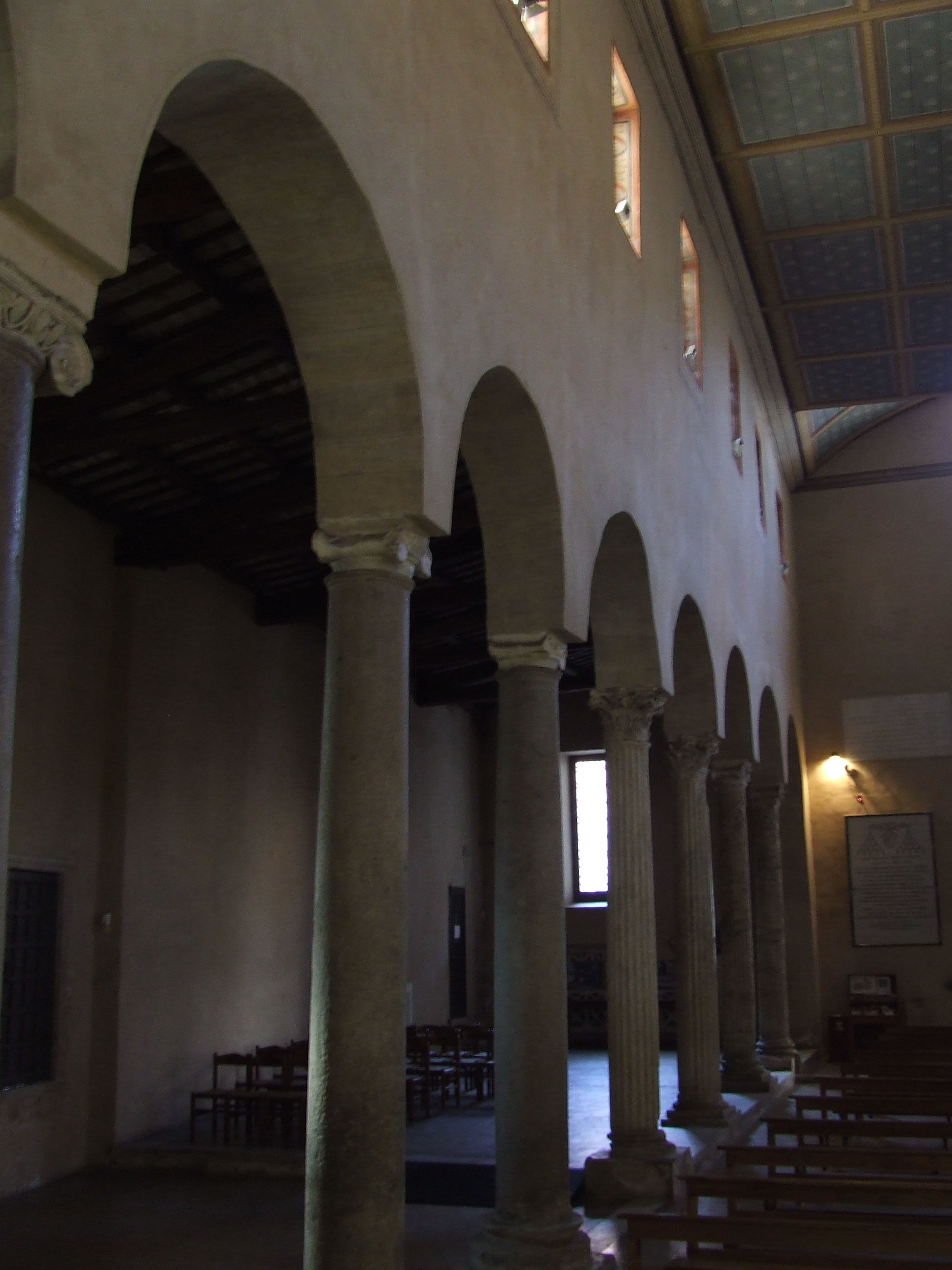 Interior of San Giorgio in Velabro, Rome. Note the different styles of column taken from various Roman temples. Located in the Foro Boario by the Tiber.